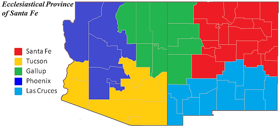 The Ecclesiastical Province of Santa Fe encompasses the states of New Mexico and Arizona, USA. Dioceses (in order of establishment): 1850 - ⬛ Archdiocese of Santa Fe 1897 - ⬛ Diocese of Tucson 1939 - ⬛ Diocese of Gallup 1969 - ⬛ Diocese of Phoenix 1982 - ⬛ Diocese of Las Cruces